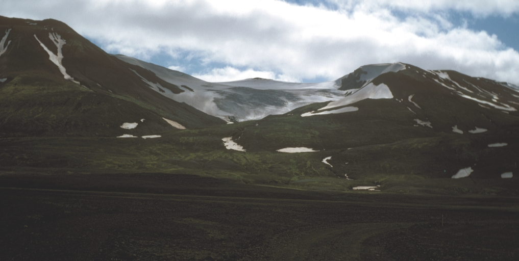 Tungnafellsjökull in Iceland on 28 or 30 Jul 1972. Picture taken and uploaded by Roger McLassus.